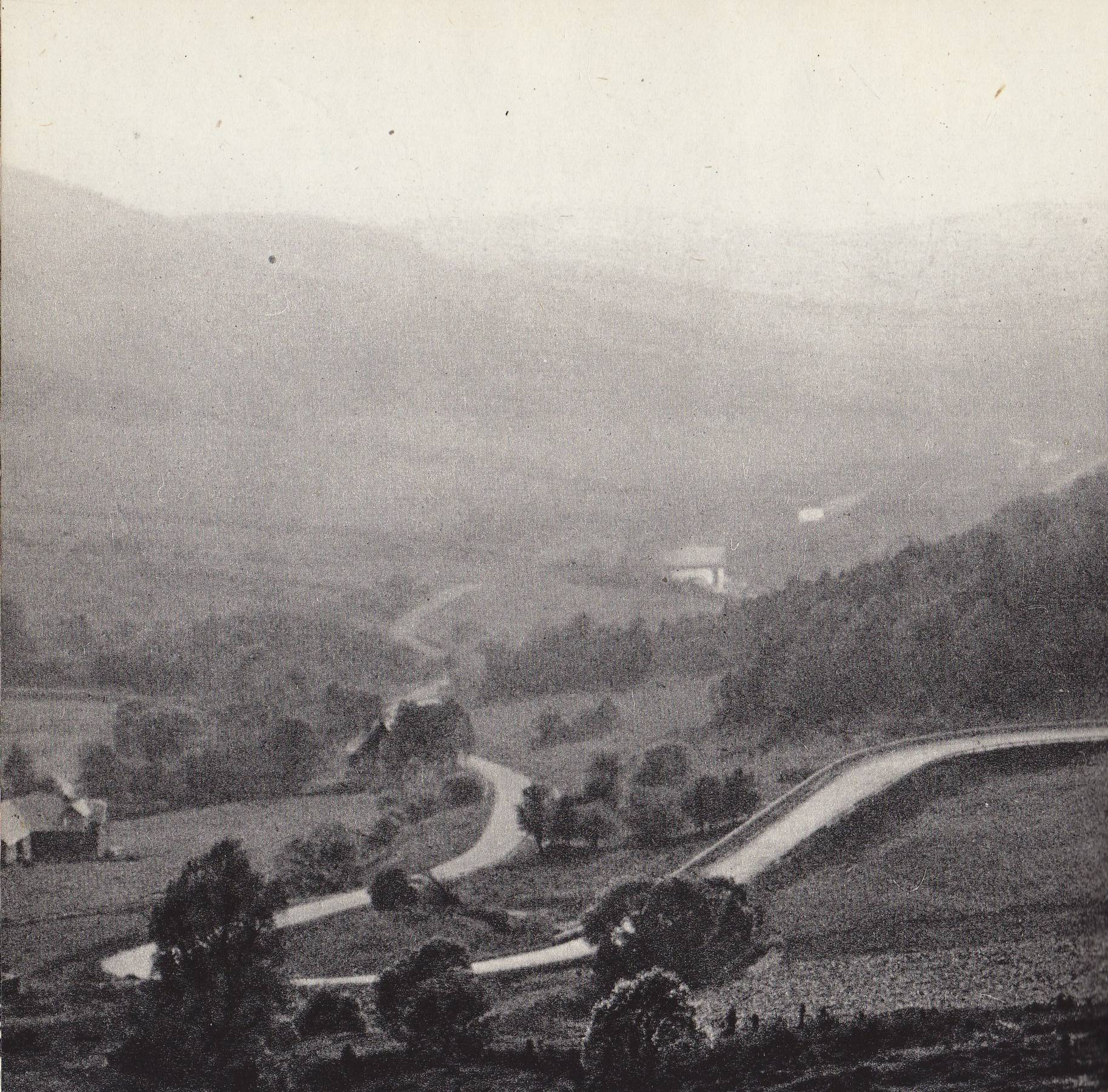 Swichbacks near Szczawne